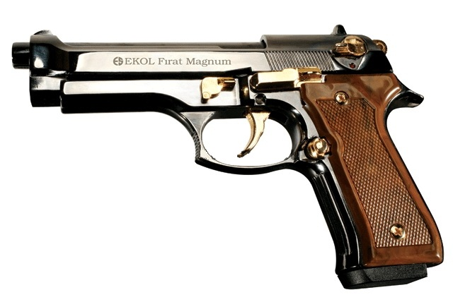 Firat Magnum Shiny-Chrome-Gold